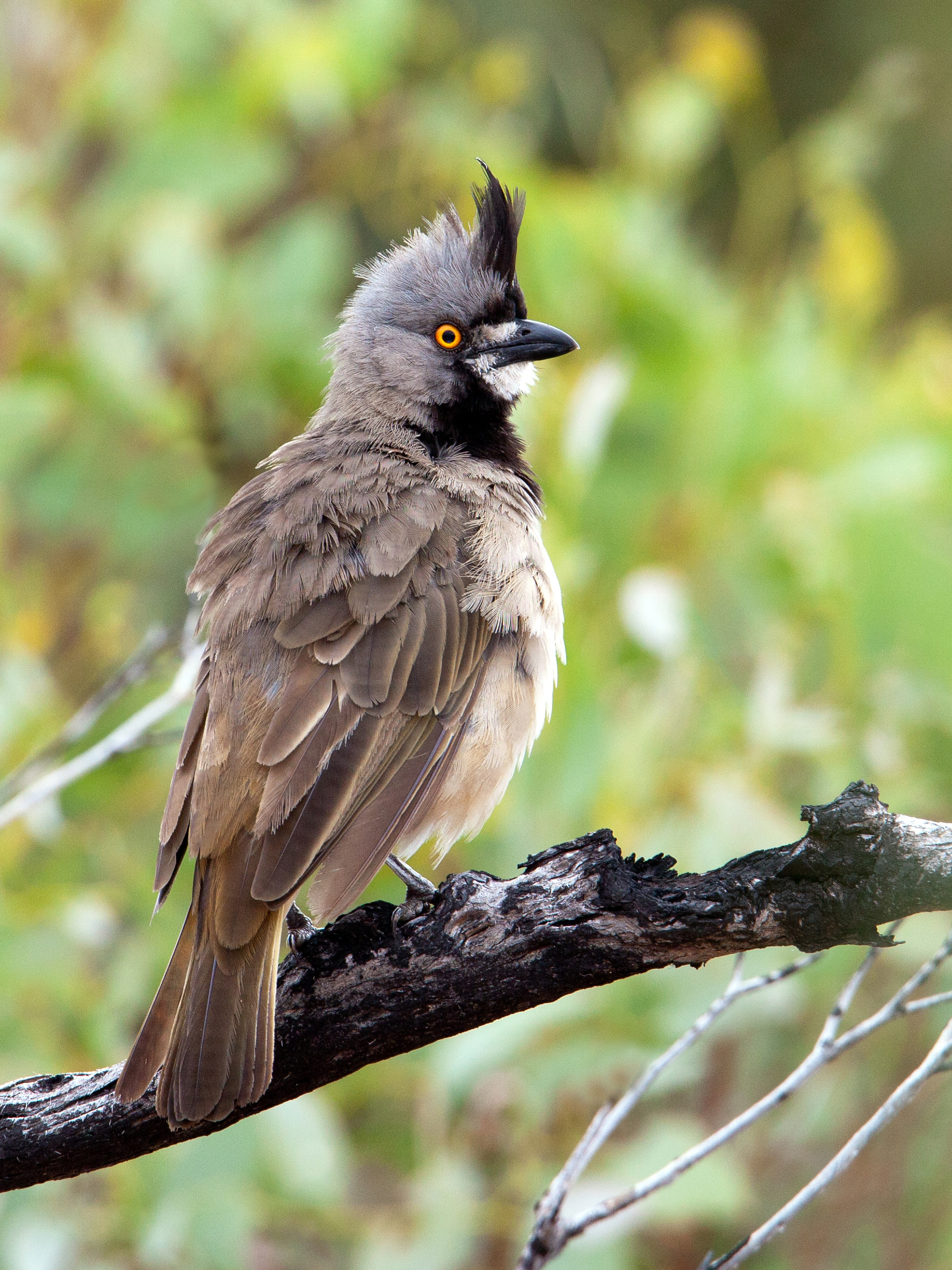 The call of the Crested Bellbird is unique and far-carrying, it is also difficult to locate the source of the call. This shot shows the distinctive crest and the orange eye, unfortunately the bird has fluffed it's feathers and it's clear lines are a little out of place. Widespread, but not overly common throughout most of inland Australia.